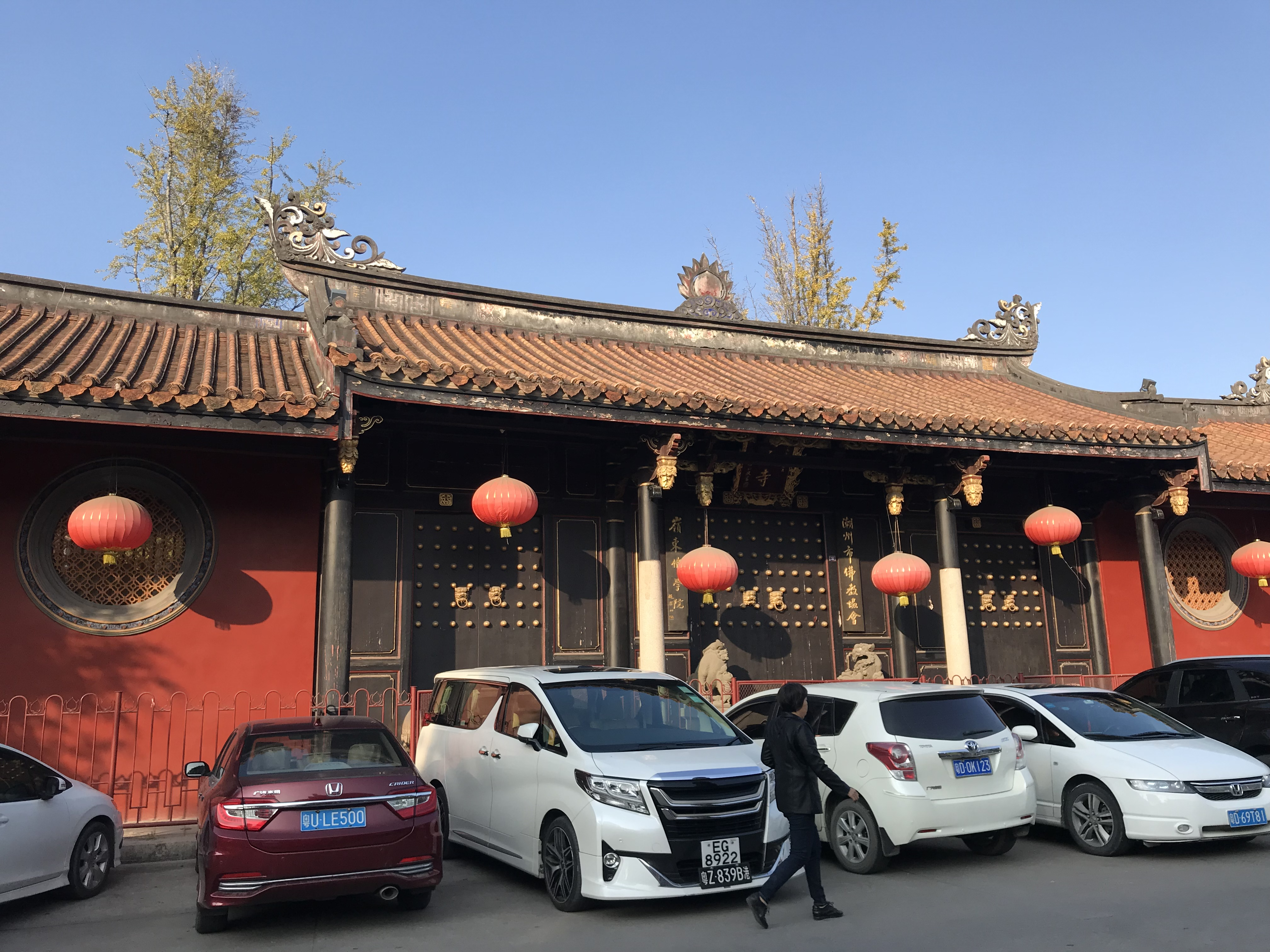 Kaiyuan Buddhist Temple in Chaozhou